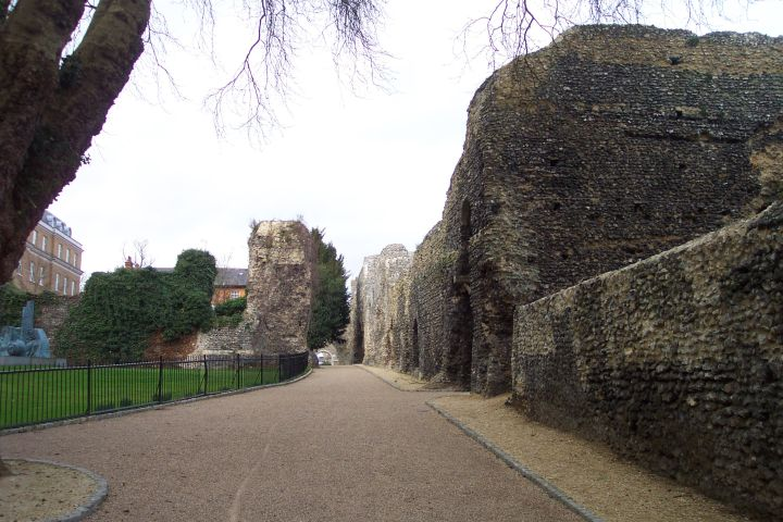 The ruined cloisters of Reading Abbey in the centre of the English town of Reading. For more information, see wikipedia article Reading Abbey.